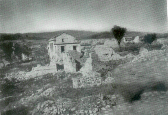 Ruins after the operation of German army at the villages Ano Kerdylia and Kato Kerdylia, Serres Prefecture, Greece, 17 October 1941.